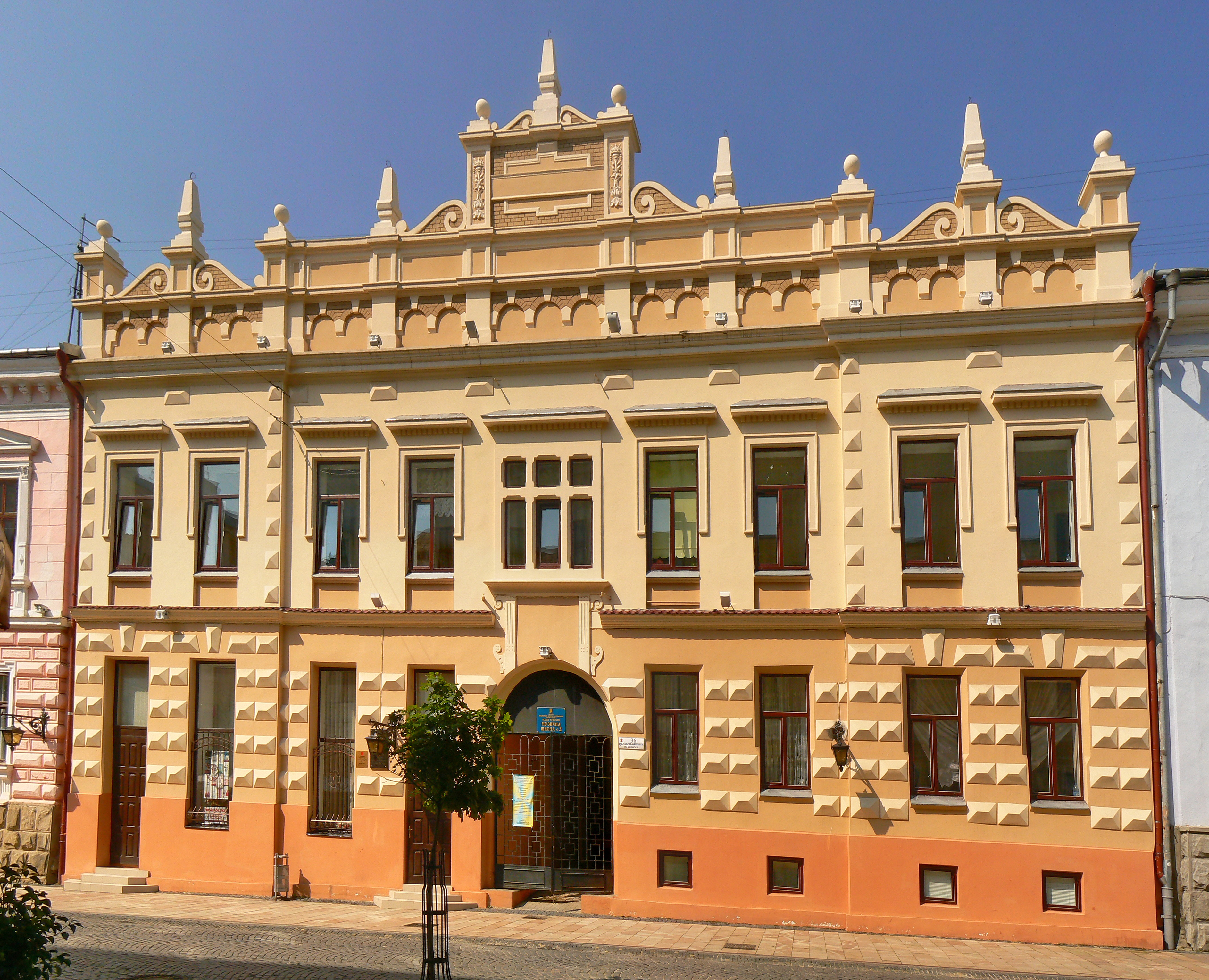 Польський дім